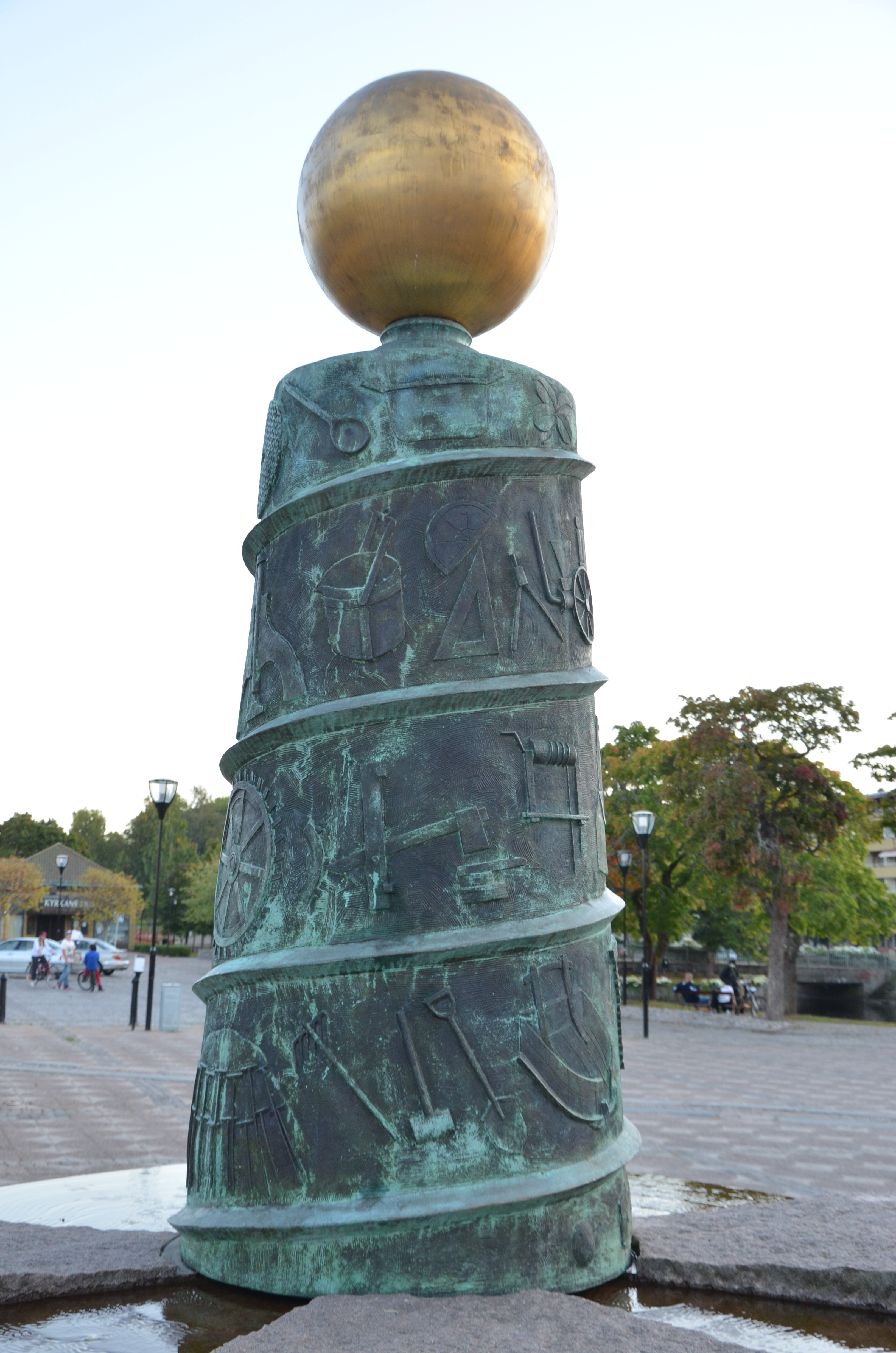 Ärepelaren av Erik Brandt på Stora Torget i Filipstad